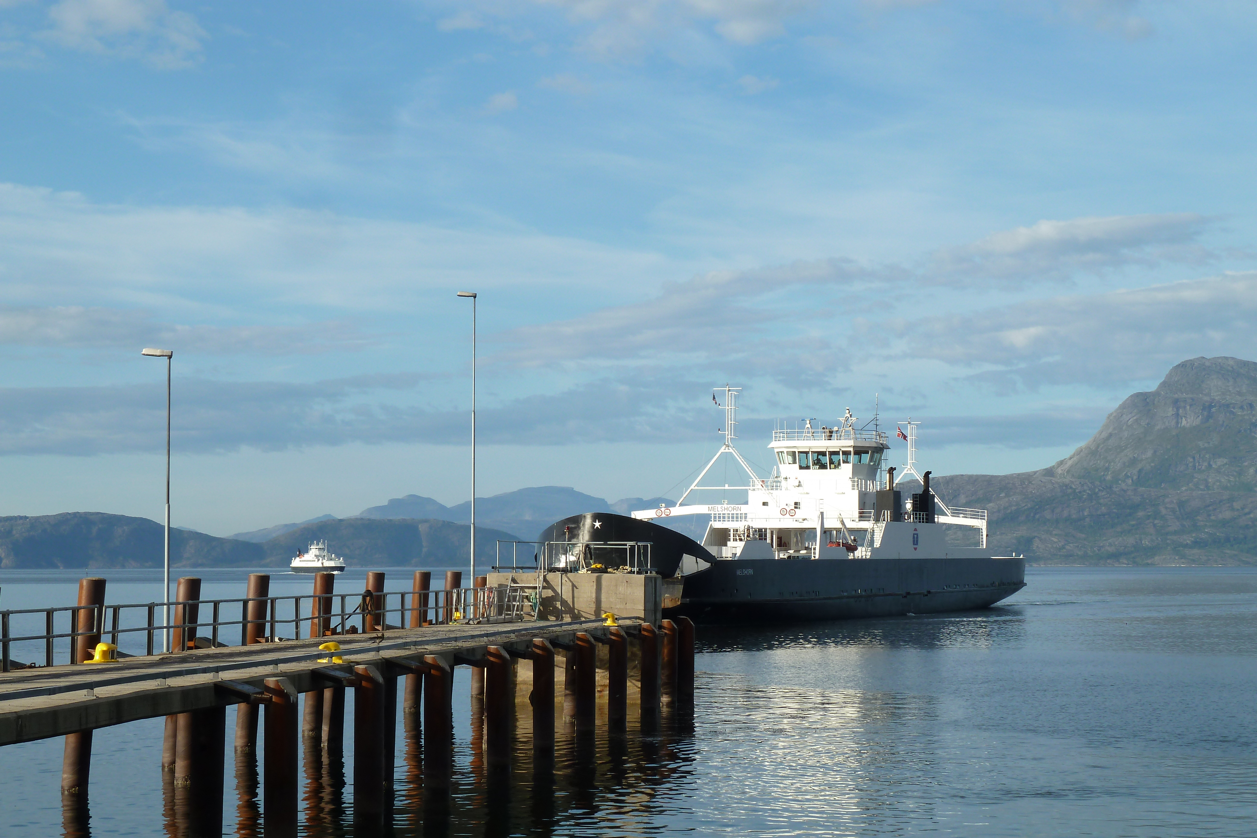 Two car ferries in Bognes, Tysfjord, Norway. Left: "Hamarøy" (connecting E6 to E10 between Bognes and Lødingen). Right: "Melshorn (connecting E6 between Bognes and Skarberget).